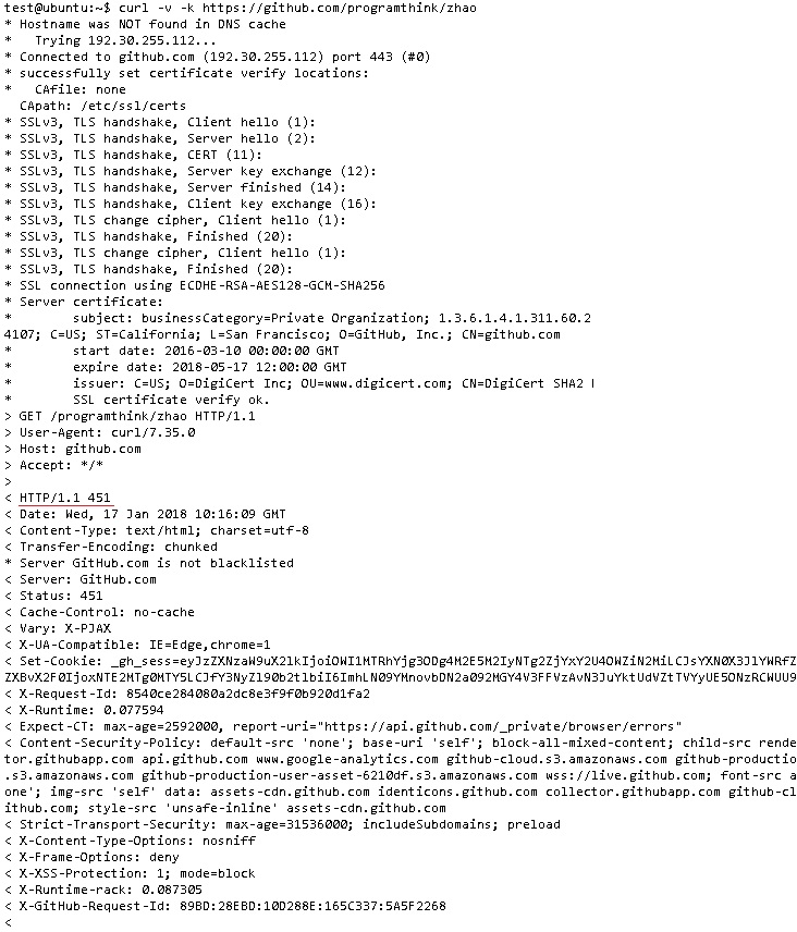 A real example of 451 HTTP status code